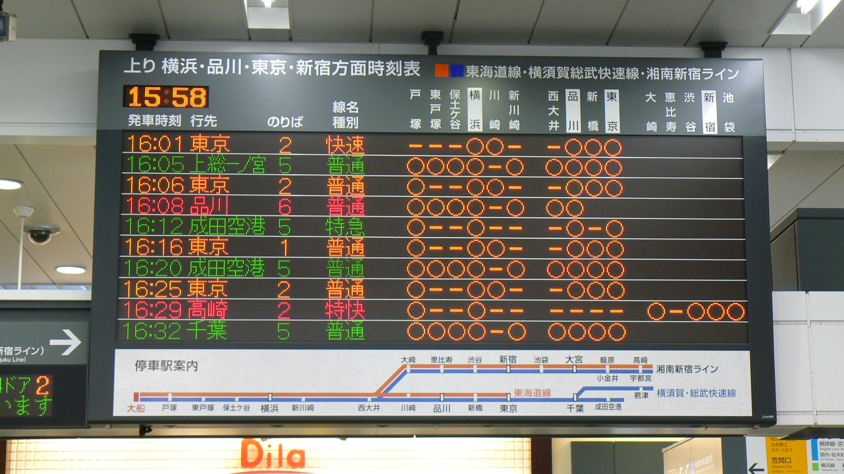 The LED Display for Train Schedules in Ōfuna Station. Colors are used to distinguish trains from different lines: Orange: Trains of Tōkaido Line. Green: Trains of Yokosuka Line and Sōbu Rapid Line. Red: Trains of Shōnan-Shinjuku Line.